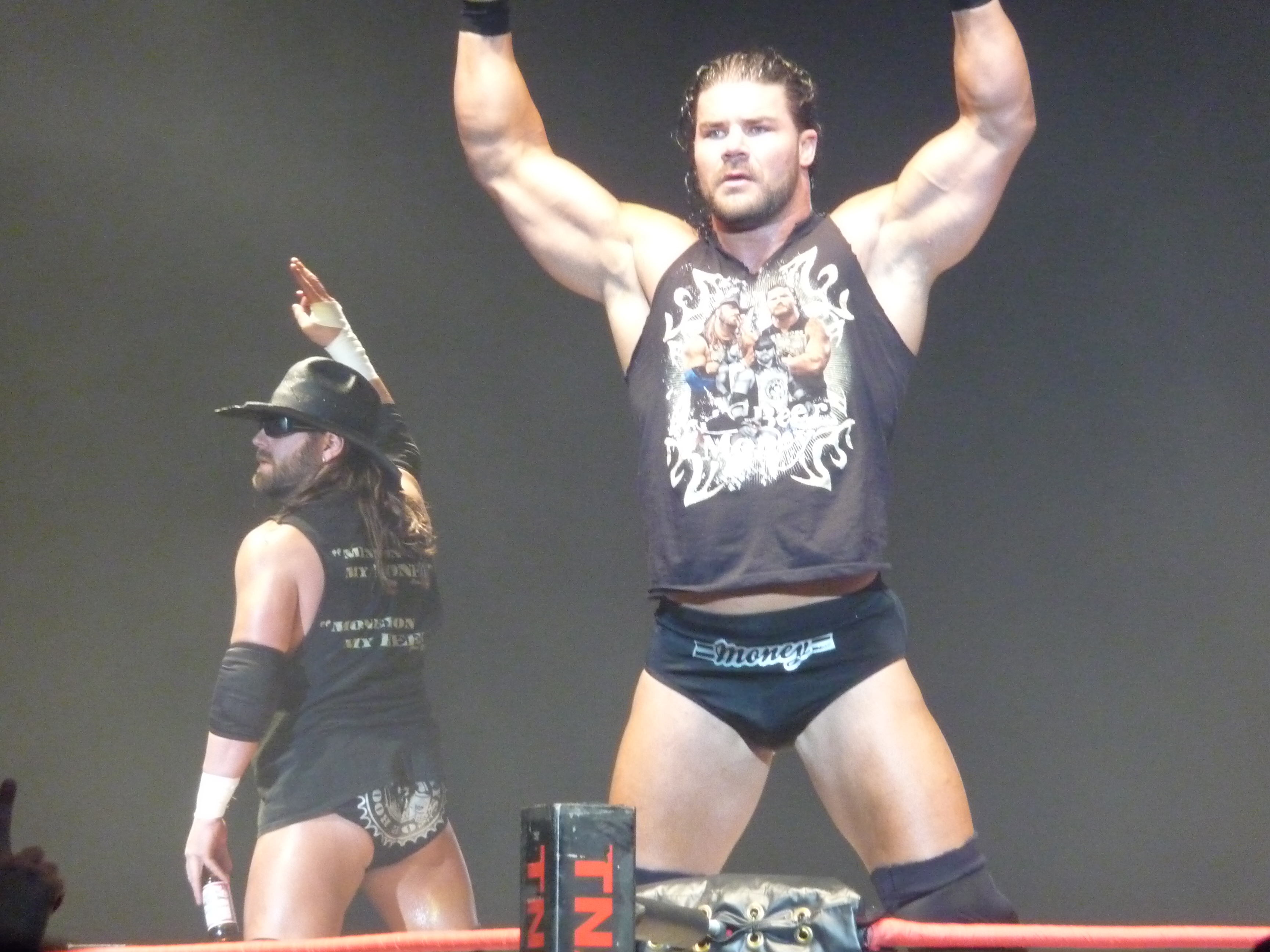 Professional wrestling tag team Beer Money posing prior to a match at a house show inEngland in January 2010.